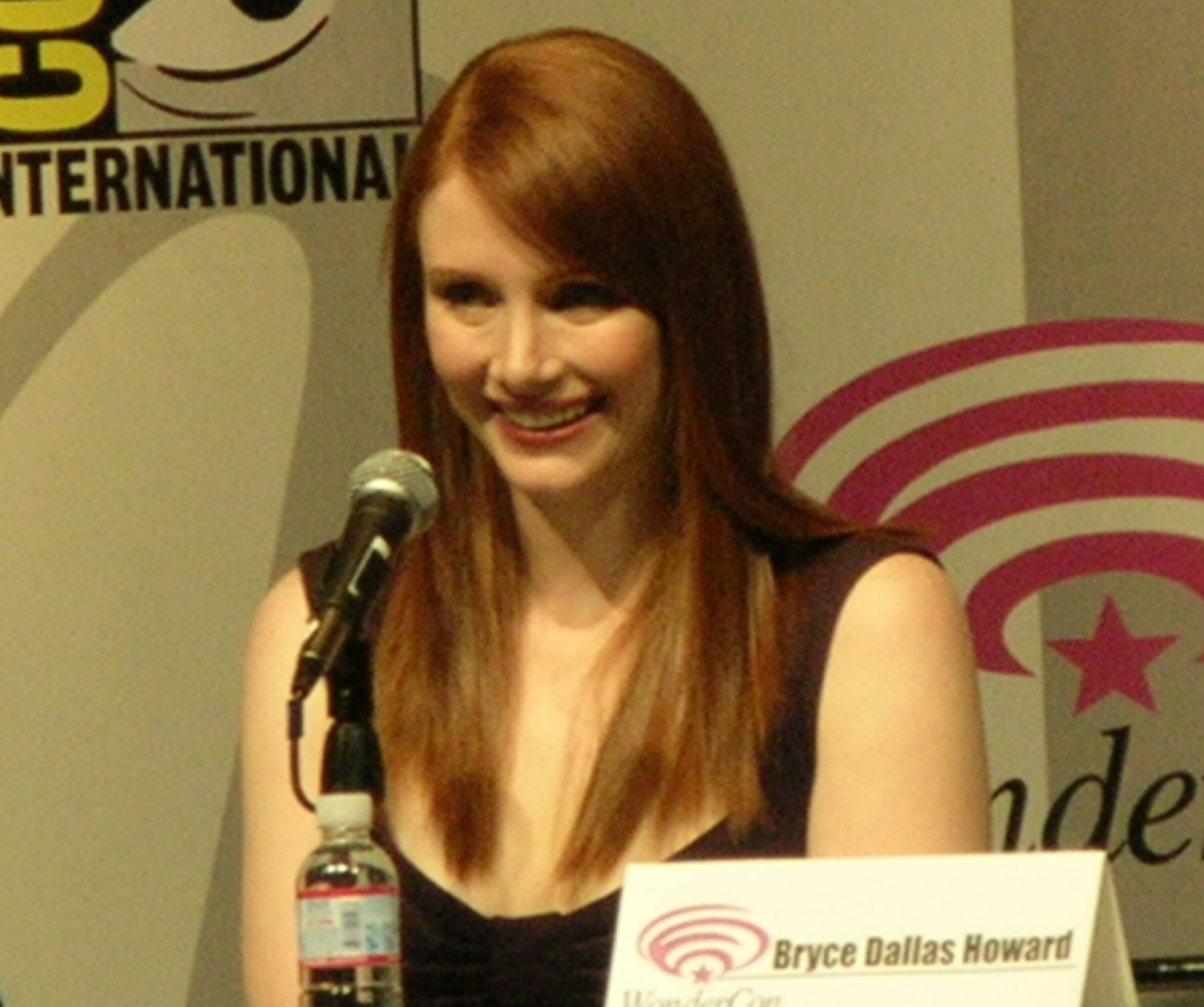 Bryce Dallas Howard participating in a Terminator Salvation panel discussion at WonderCon 2009.